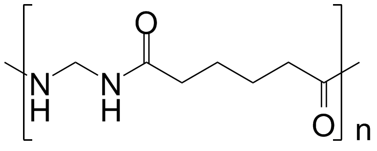 nylon 1,6 polymer structure